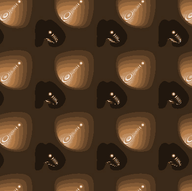 A topographical (moduli) image of virtual integrals in the complex plane over [-10,10]